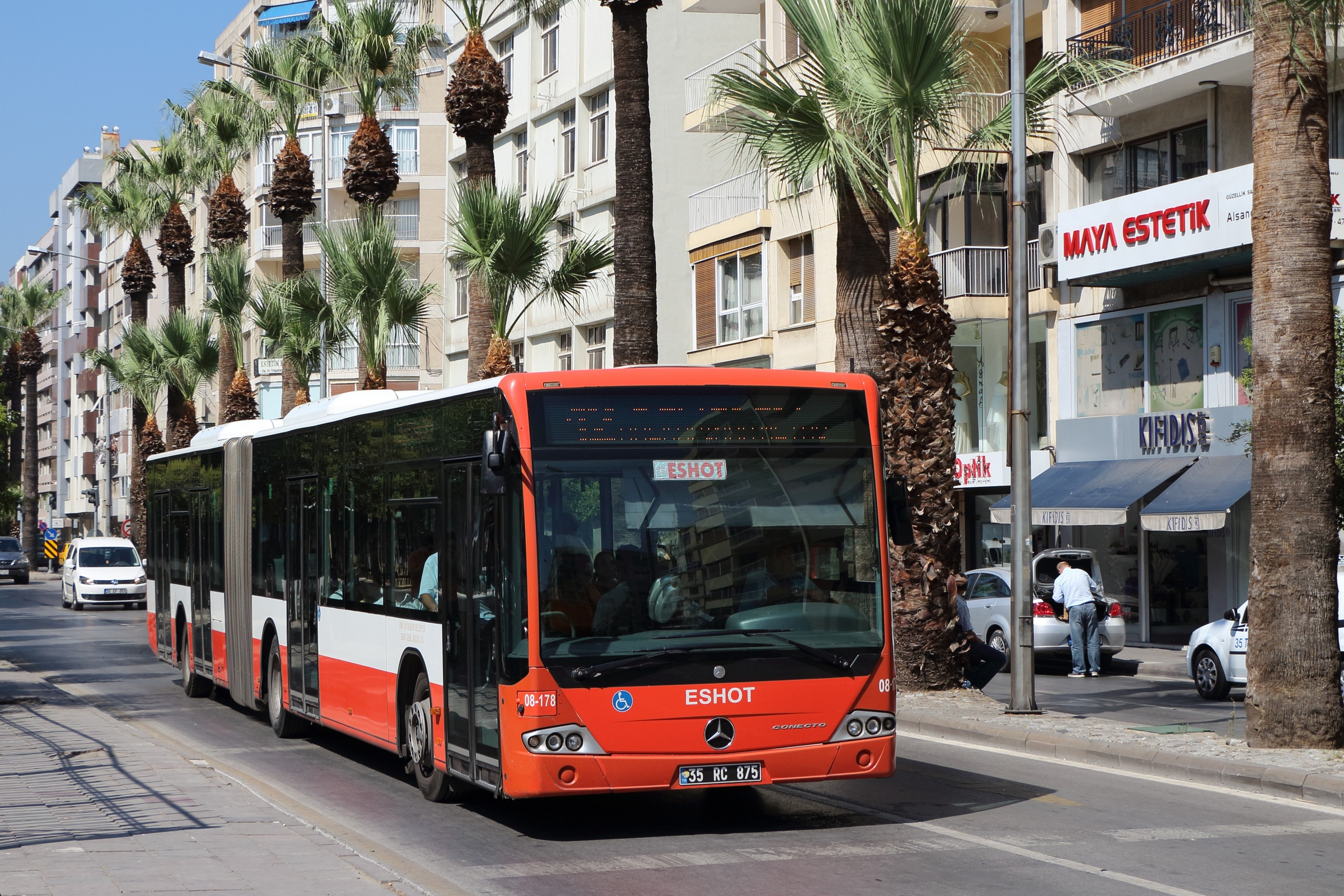 City bus in Izmir, Turkey (Mercedes-Benz Conecto).